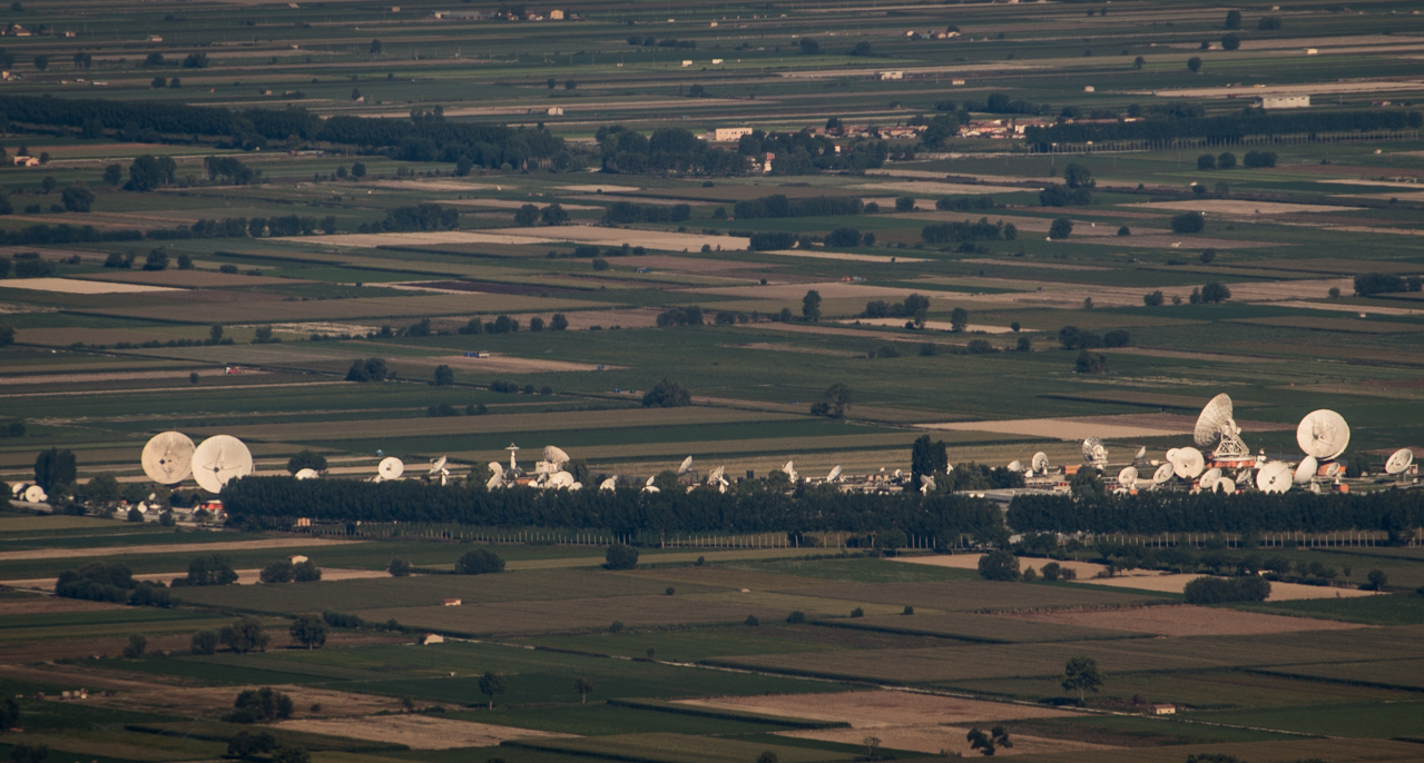 Landscape del Fucino Space Centre in Ortucchio, from Sperone, Abruzzo, Italy